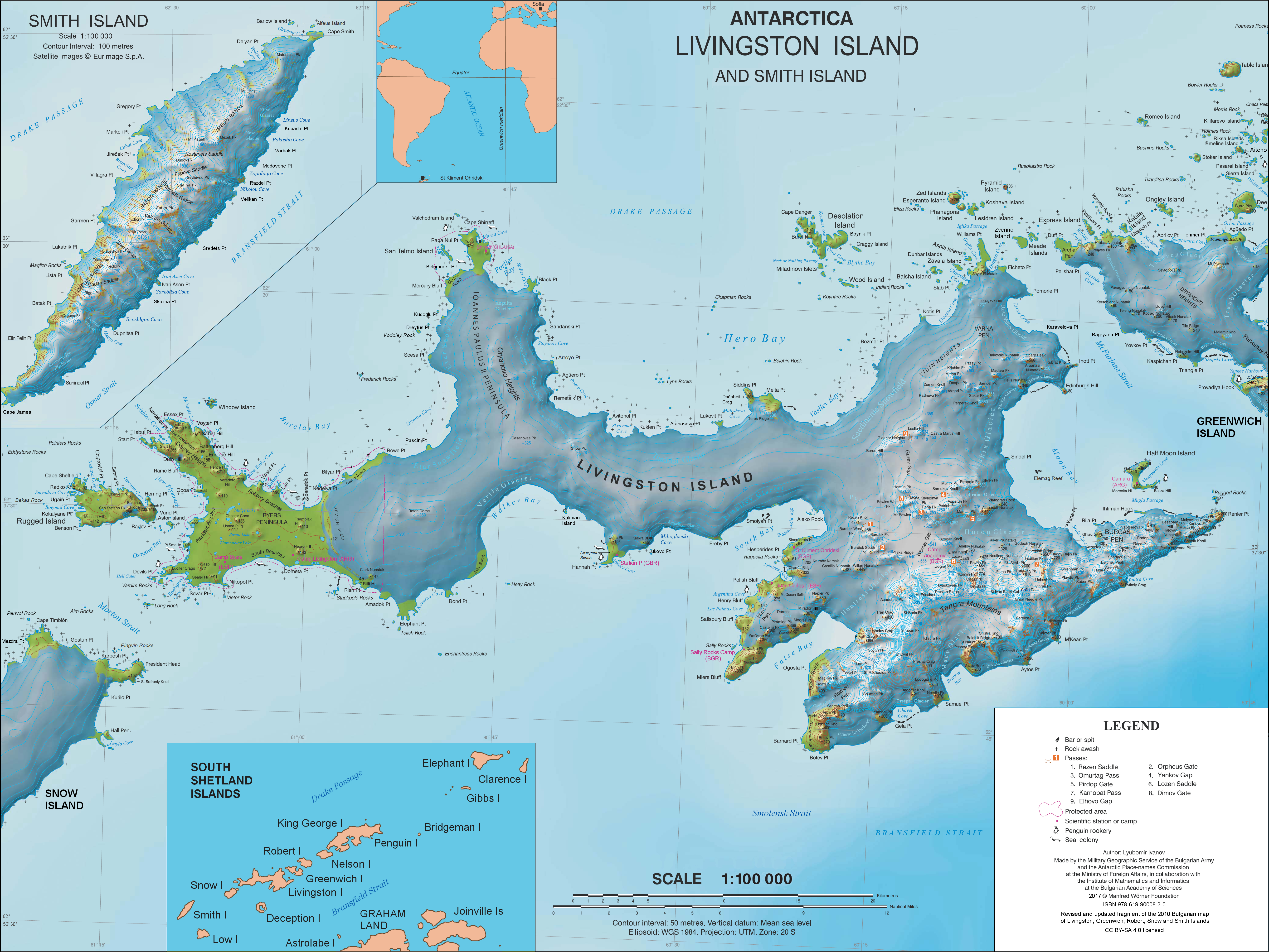 L.L. Ivanov. Antarctica: Livingston Island and Smith Island. Scale 1:100000 topographic map. Manfred Wörner Foundation, 2017. ISBN 978-619-90008-3-0